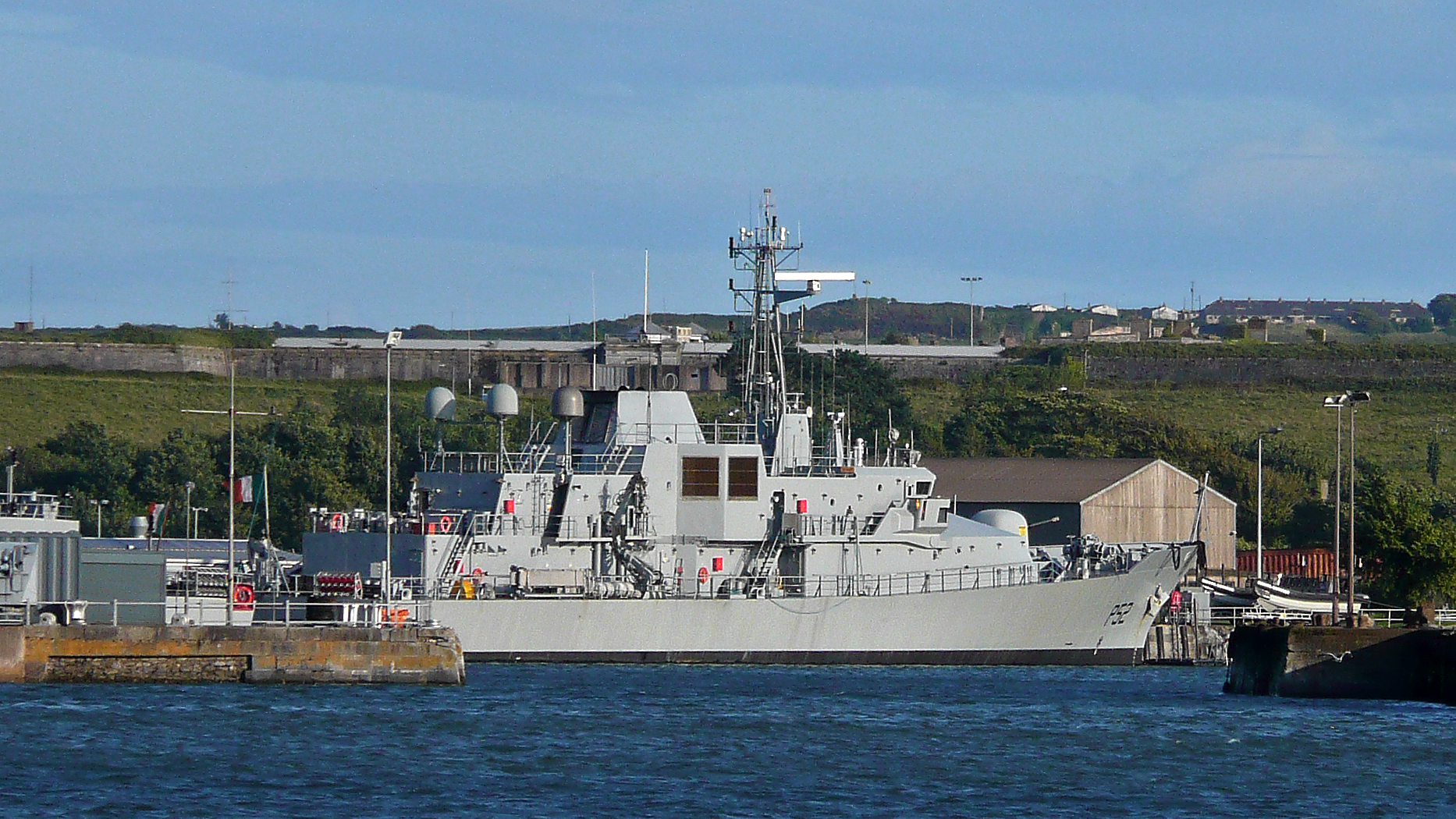 LÉ Niamh (P52) at Haulbowline Island - Cork Harbour (Ireland) - Offshore Patrol Vessel of An tSeirbhis Chabhlaigh (Irish Naval Services) - Róisín Class - Commissioned: 18/09/01